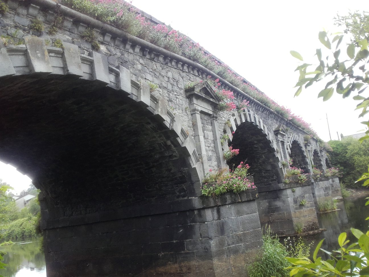 Green's Bridge, Kilkenny in flower by Jason Quinn